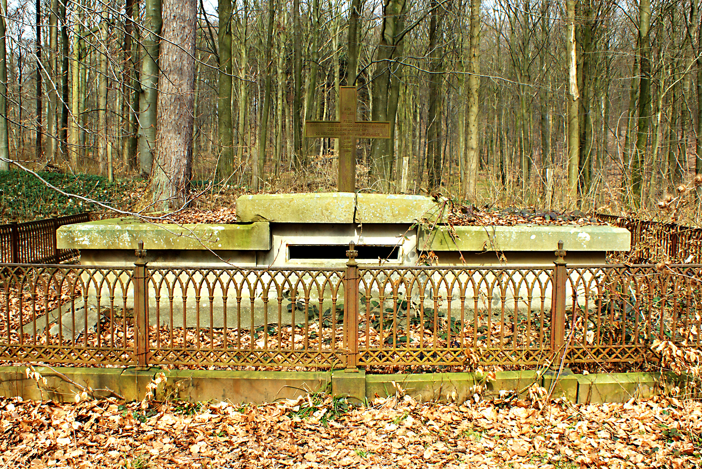 mausoleum in the forest near manor Tirsbaek near Vejle in Denmark